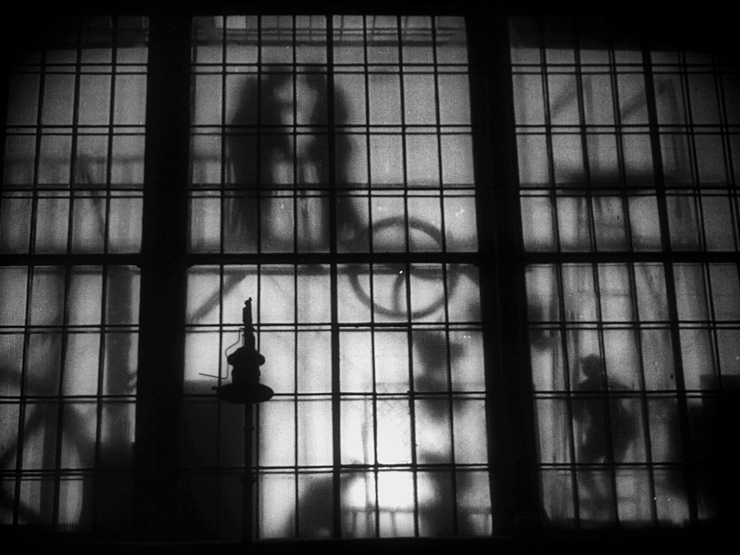 Still from Strike.